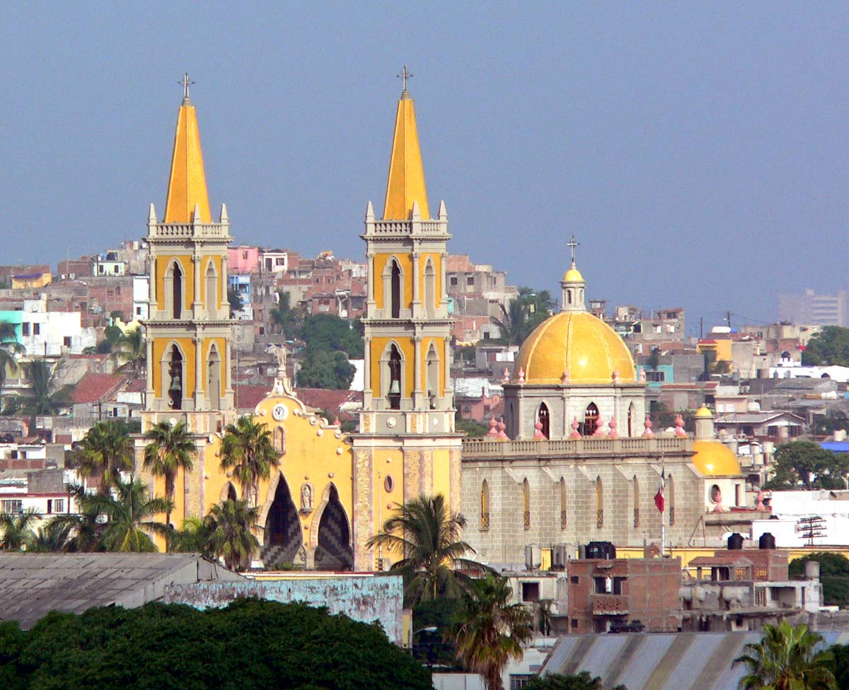 Photo of Mazatlan cathedral